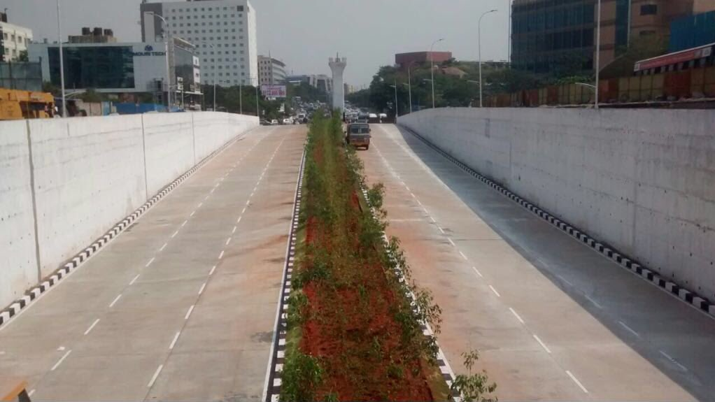 Rahejamindspacesrdpraidurg